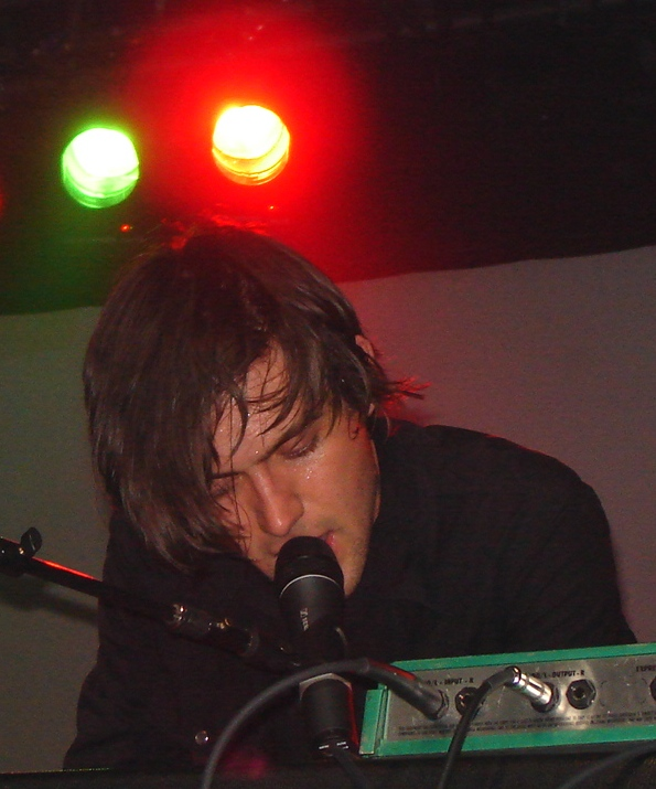 Conor Oberst performing with Bright Eyes at Schlachthof, in Wiesbaden, Germany.